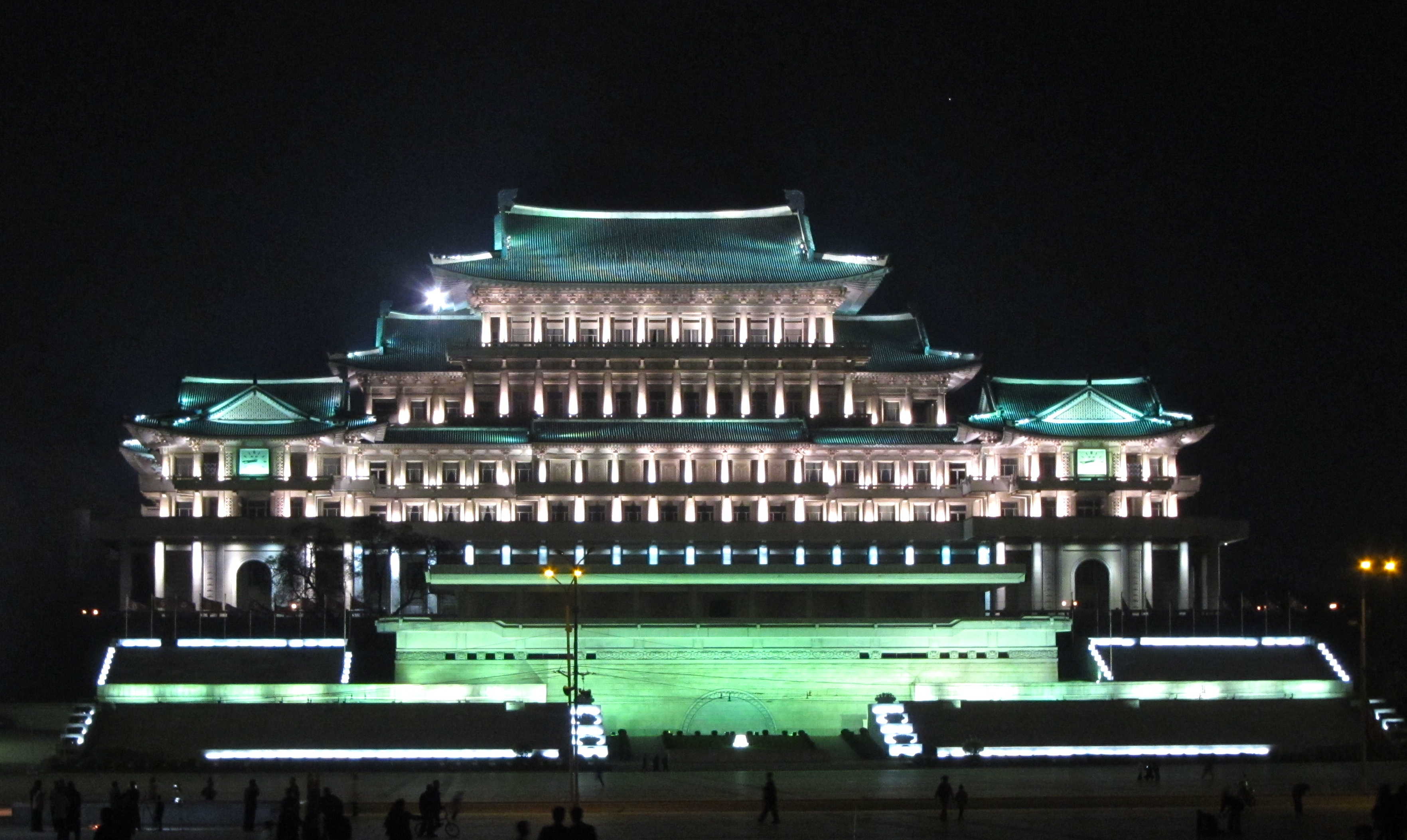 Lit Up for May Day Celebration (Parade Reviewing Stand Lit in Green in the Foreground) ; Kim Il Sung Square; Pyongyang, DPRK (North Korea)